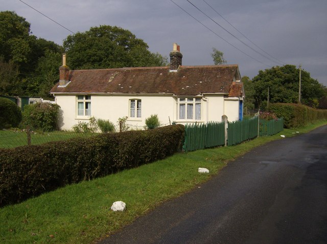 Pound Crossing, near to Shalfleet, Isle of Wight, Great Britain. This is the former crossing-keeper's cottage. The Yarmouth to Newport railway line crossed here, just in front of the cottage where the hedge and the fence join. The line closed in September 1953.